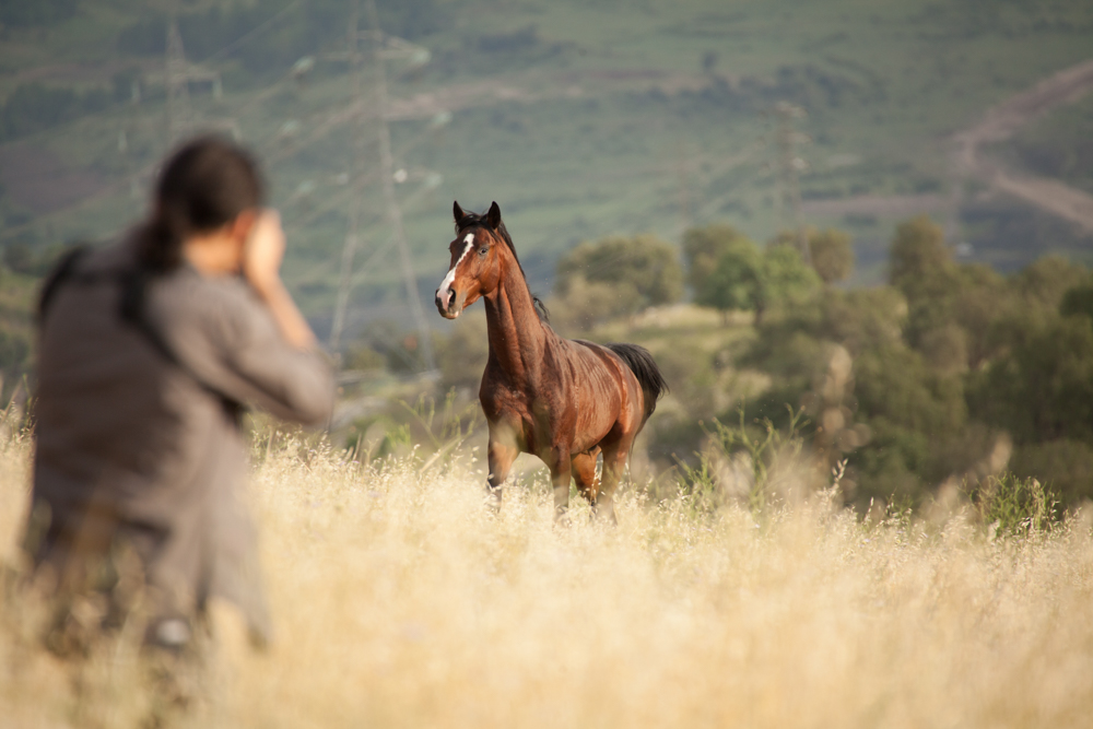 Bengin Ahmad the horse photography artist in action